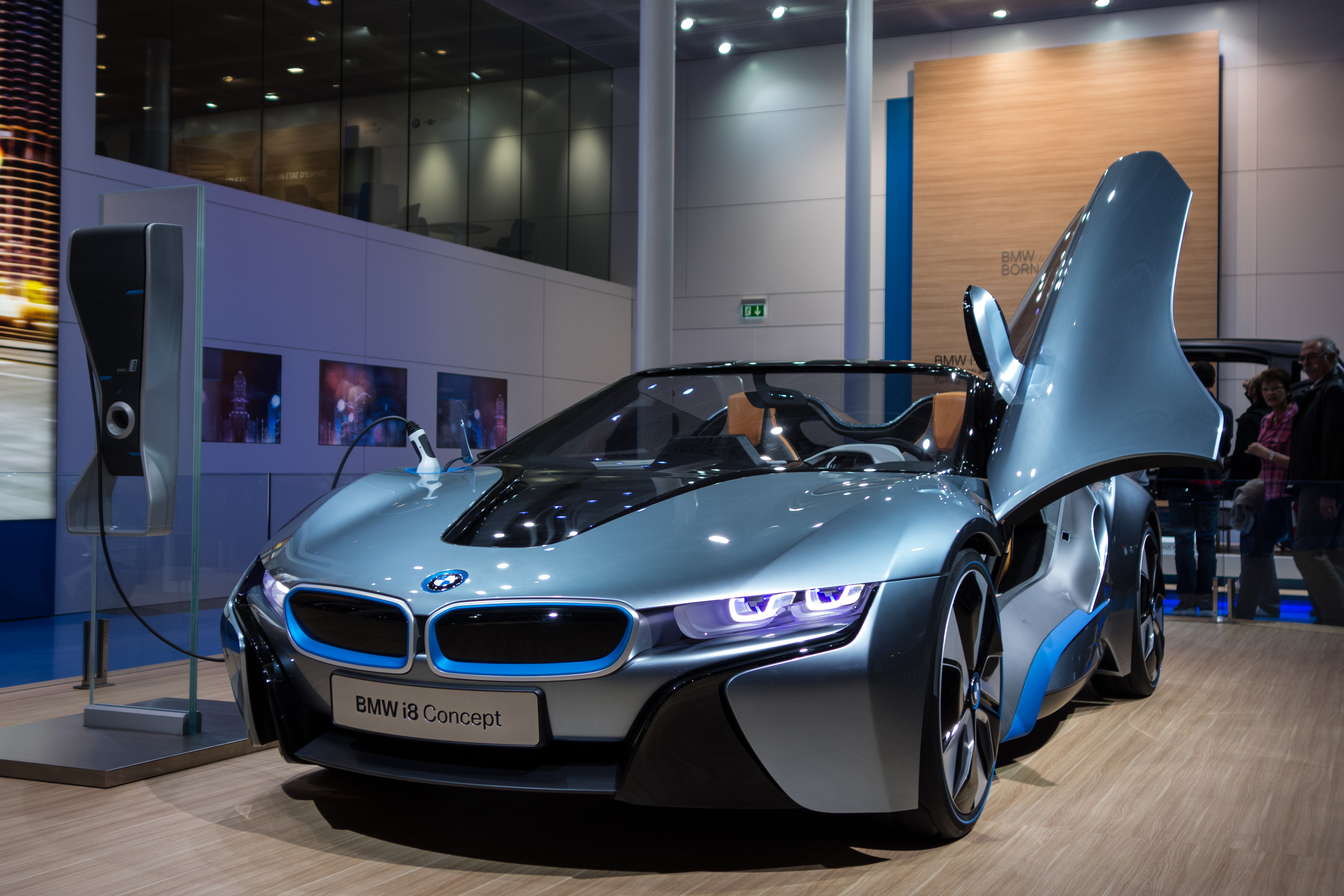 Mondial De L'automobile Paris 2012 | Paris Motor Show 2012